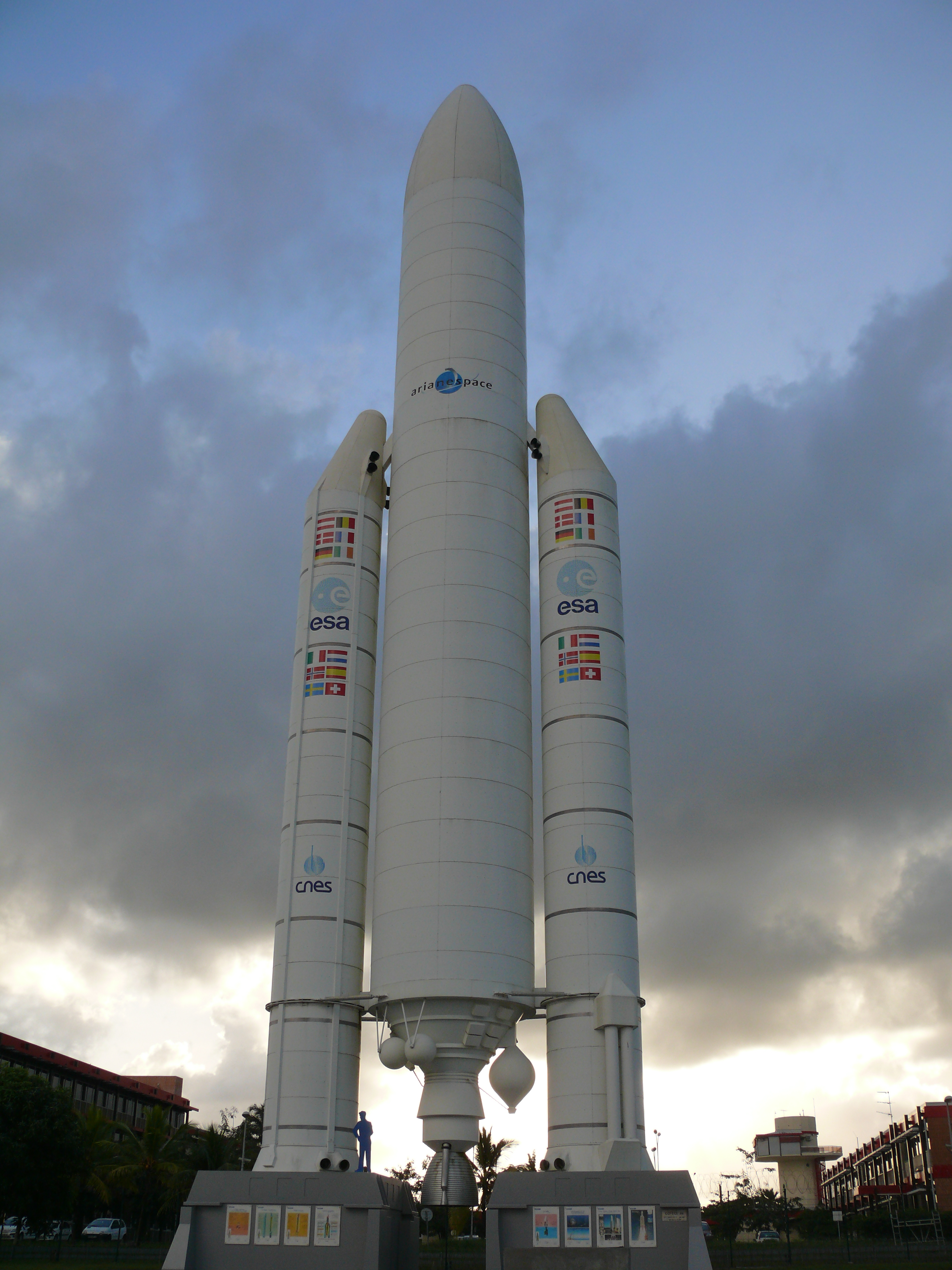 A model at the entrance to the CSG.